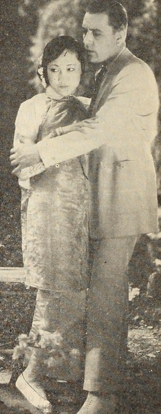 Still from the American drama film The Toll of the Sea (1922) with Anna May Wong and Kenneth Harlan, on page 116 of the December 16, 1922 Exhibitor's Trade Review.